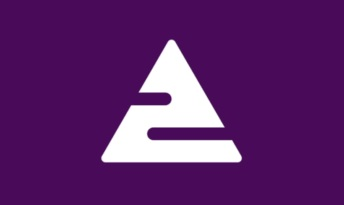 Flag of Ebino Miyazaki